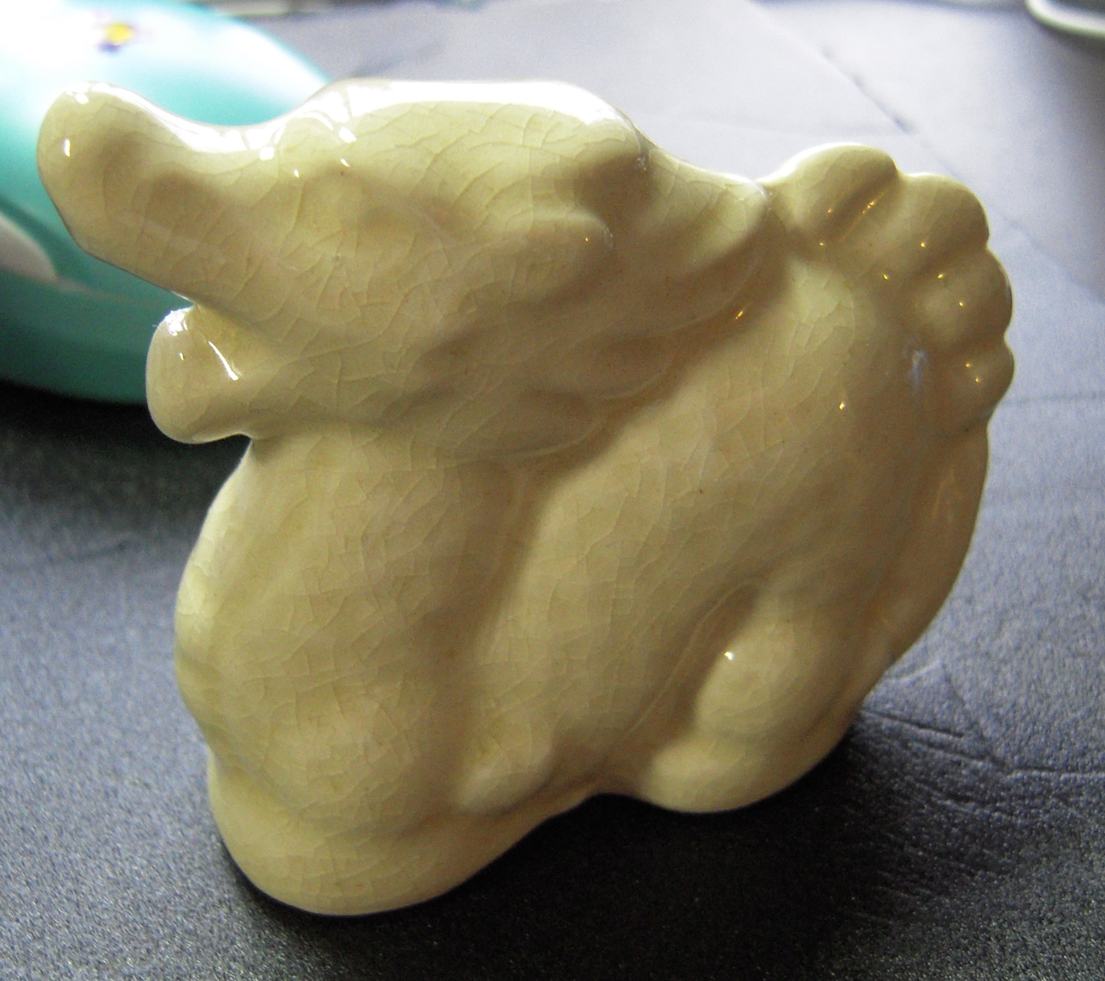 Satsumayaki (Shiro Satsuma)